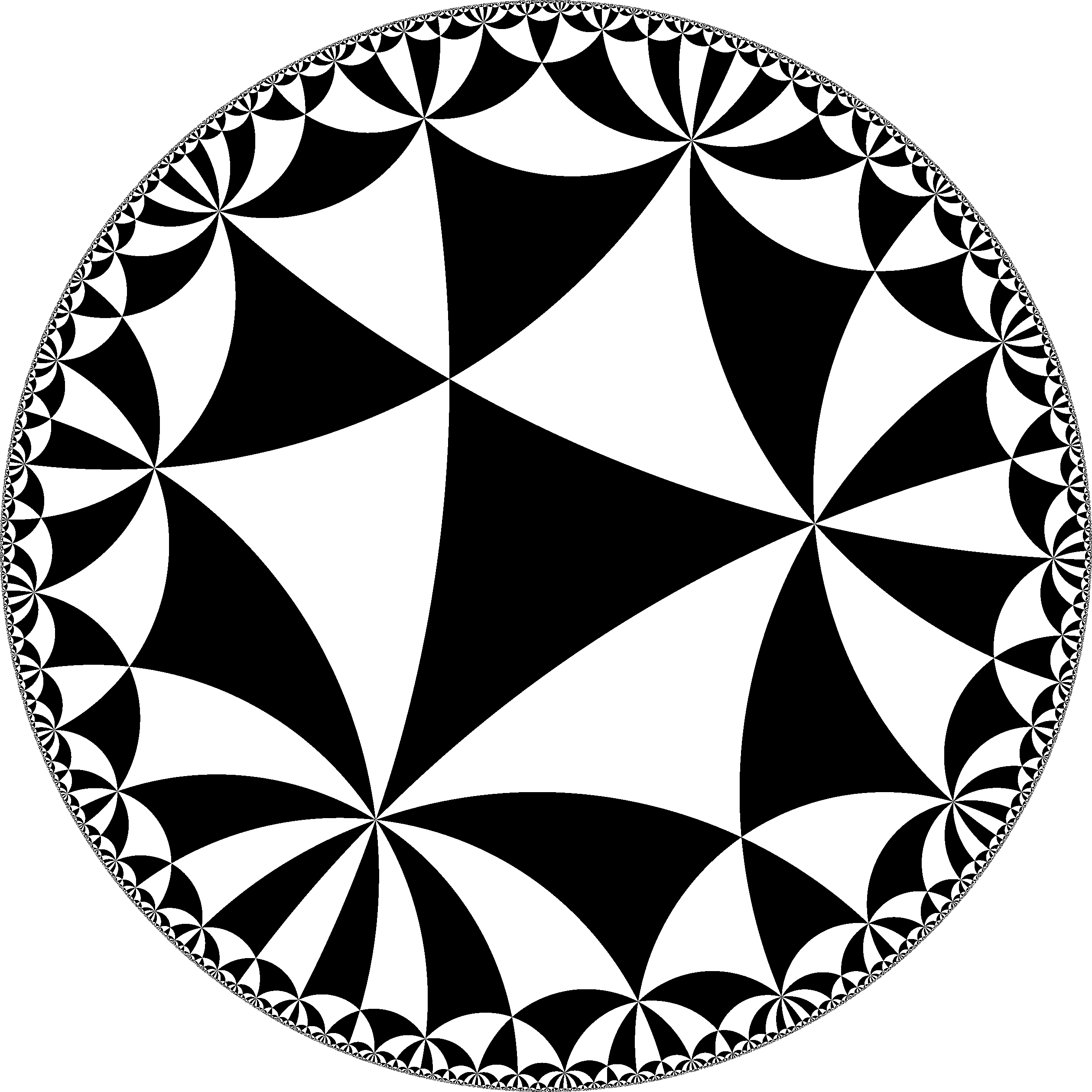 Tiling of the hyperbolic plane by triangles: π/3, π/5, π/7. Generated by Python code at User:Tamfang/programs. Dual